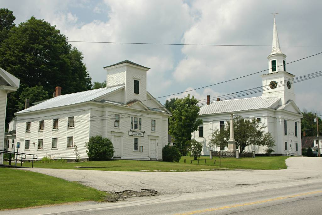 Williamstown, Vermont Church and Historical society Source: Photograph taken by M.S.Maguire Copyright: ©2006 M.S.Maguire